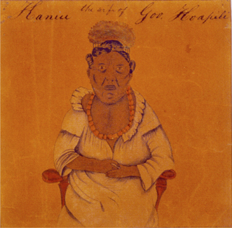 Hoapili-wahine, watercolor depiction by C. C. Armstrong. Bishop Museum.